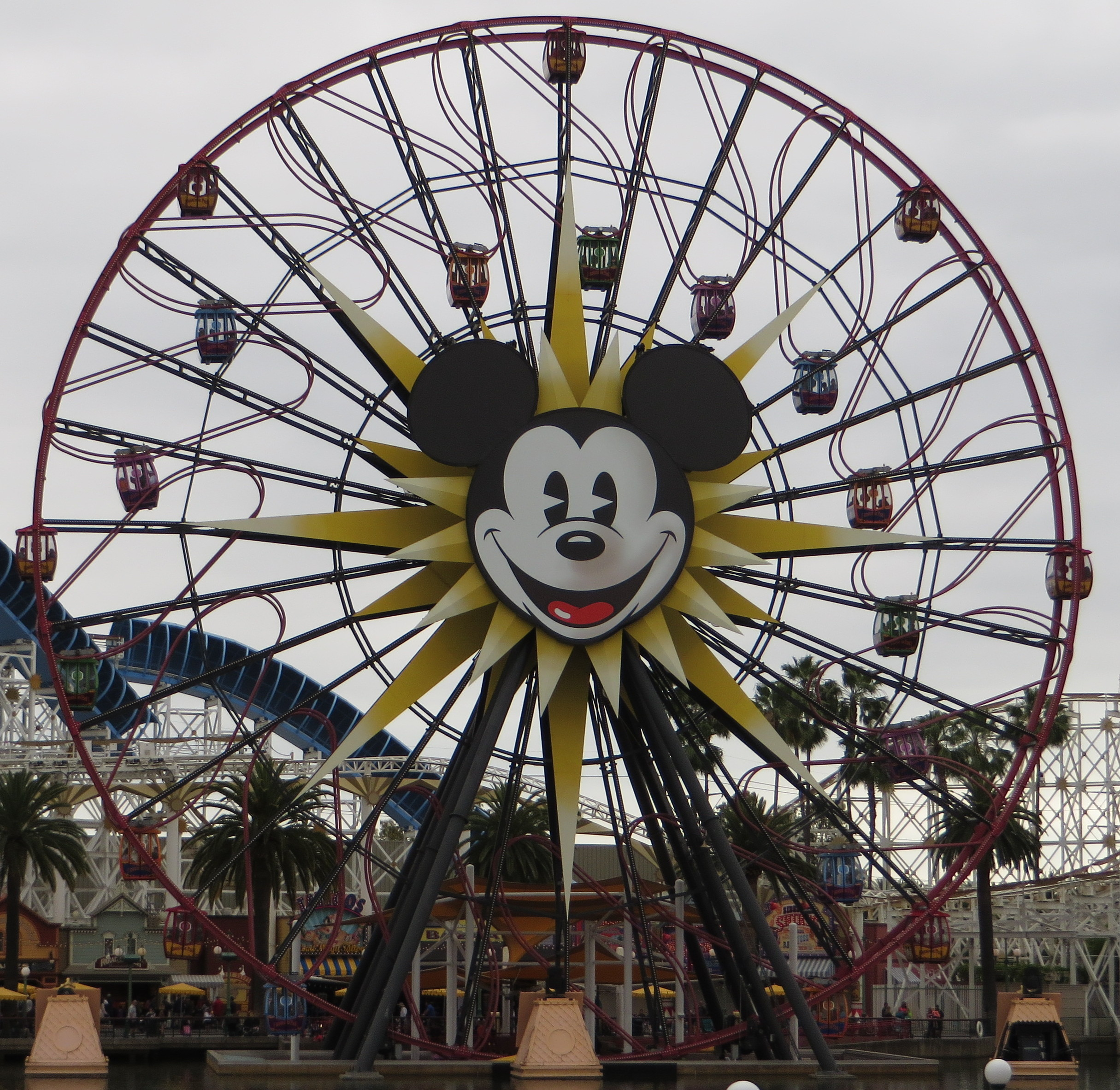 Paradise Pier is a themed "land" at Disney California Adventure, Disneyland's sister park, which are all part of the Disneyland Resort. Its appearance is based on that of Victorian boardwalks that were once found along the coast of California. Despite its name and the presence of a nearby man-made lake, Paradise Pier is not actually a pier, but merely a waterside area of the park. The roller coaster California Screamin' sprawls across much of it, with various other attractions and forms of entertainment scattered around it. A new attraction, Toy Story Midway Mania!, opened on June 17, 2008. The attraction is the first in a series of theming upgrades to the land and park as a whole. This was followed by changes to the Sun Wheel to become Mickey's Fun Wheel and new Games of the Boardwalk in 2009. In 2010, World of Color and Silly Symphony Swings were added. To complete the Paradise Pier makeover, Disney opened Goofy's Sky School and The Little Mermaid: Ariel's Undersea Adventure.